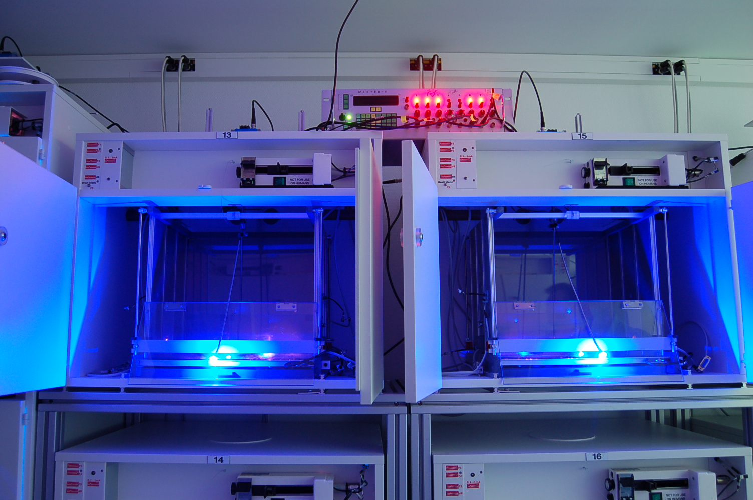 Cages for rat equiped of optogenetics leds commutators which permit in vivo to study animal behavior during optogenetics' stimulations.